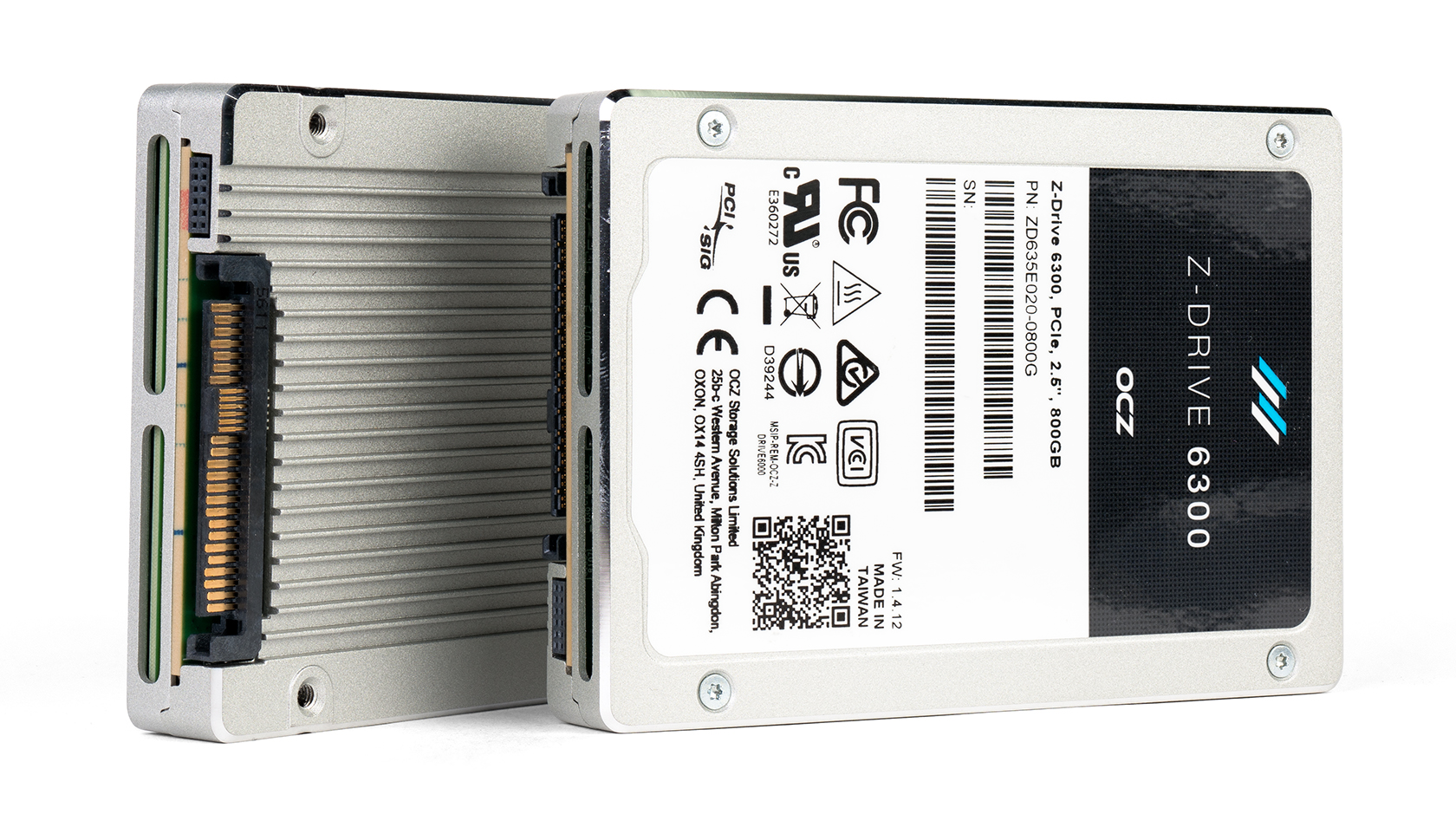 OCZ Z6300 NVMe flash SSD in U.2 form-factor: 15mm z-height, 2.5-inch drive with SFF-8639 connector.